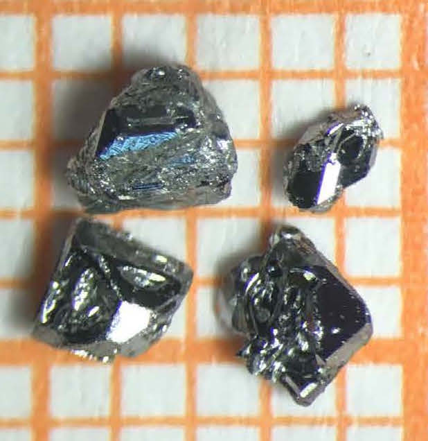 Cr11Ge19 single crystals